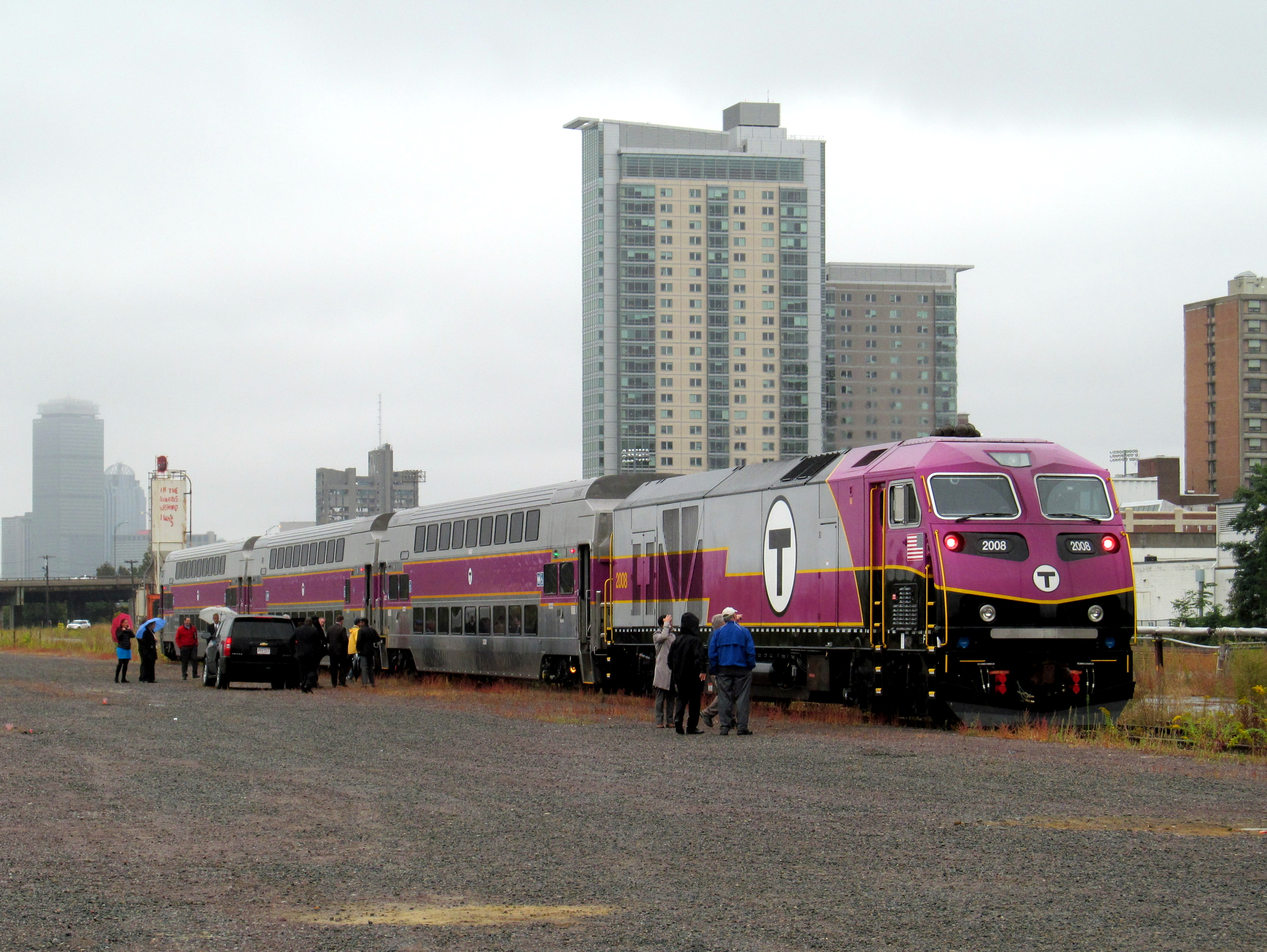 An MBTA Commuter Rail train, consisting of HSP-46 #2008 and bilevel cars #839, 804, and 818, sits in Beacon Park Yard for a press event announcing plans for West Station